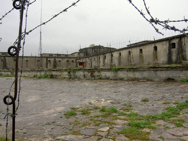 Court yard of a political prison in Girokaster, Albania.